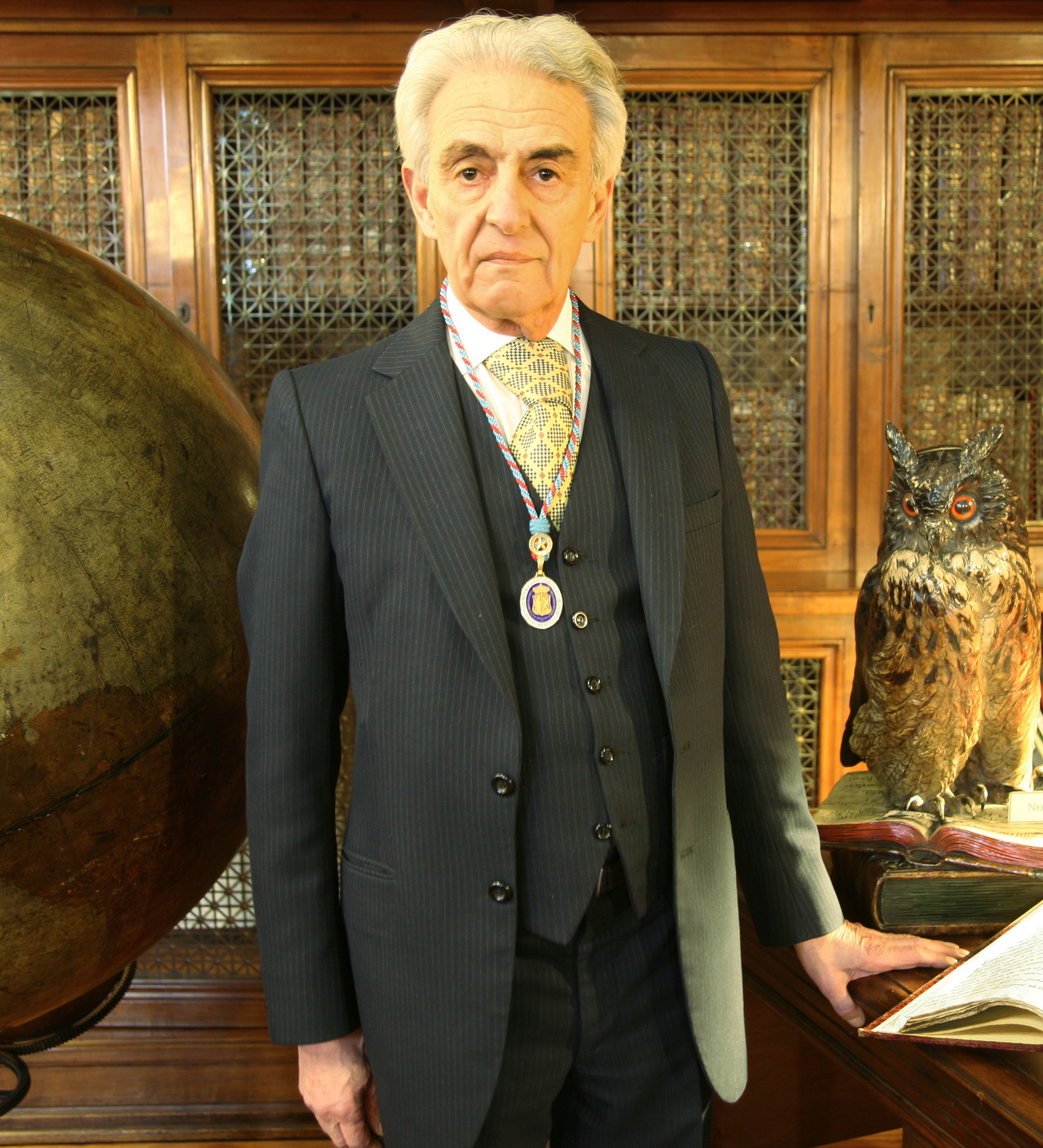 Bernardino Bravo Lira, Chilean historian, attorney and author, and winner of the Premio Nacional de Historia 2010.